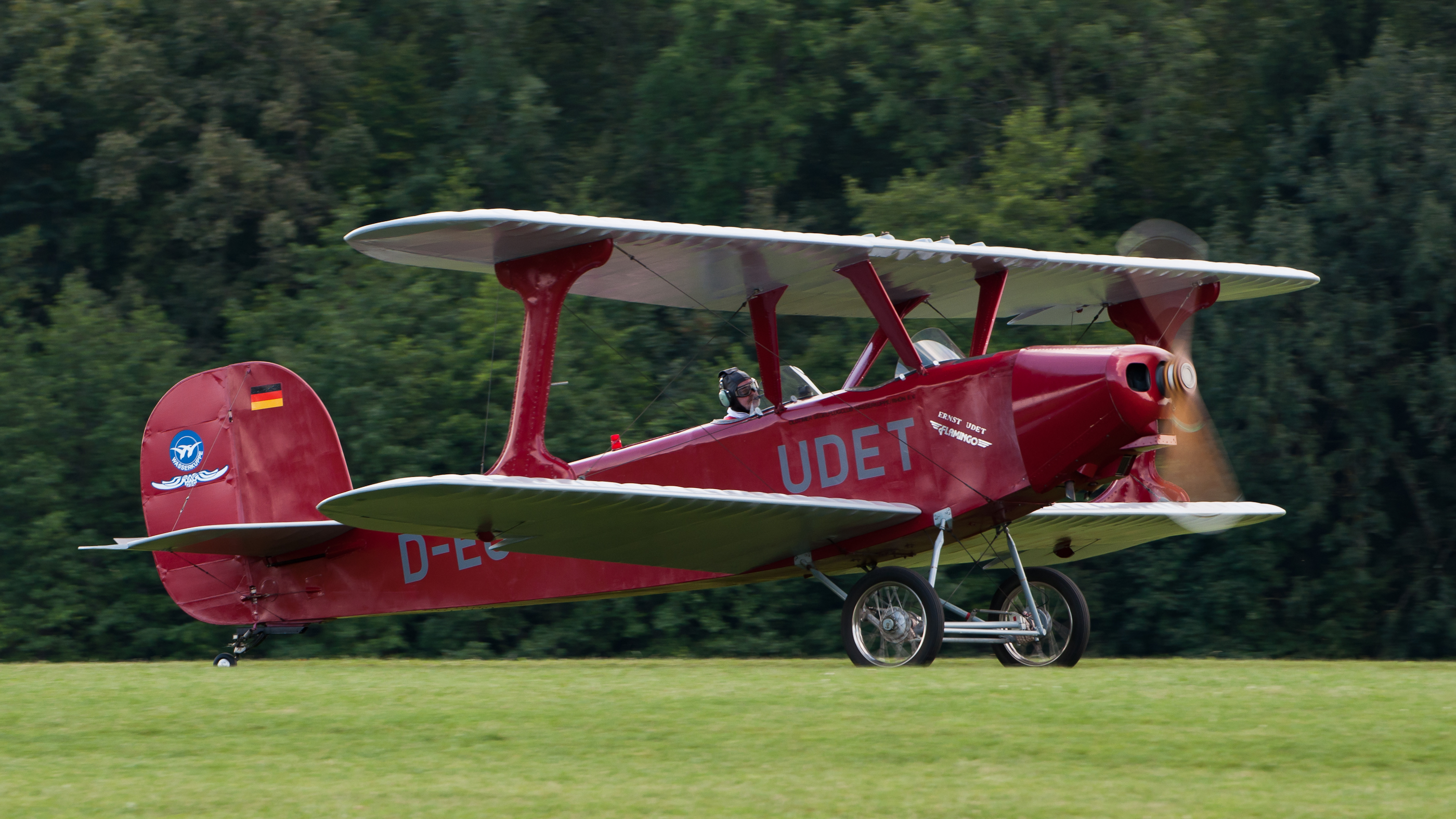 Udet U-12K Flamingo (reg. D-EOSC, cn 01, built in 1993). Engine: O320.